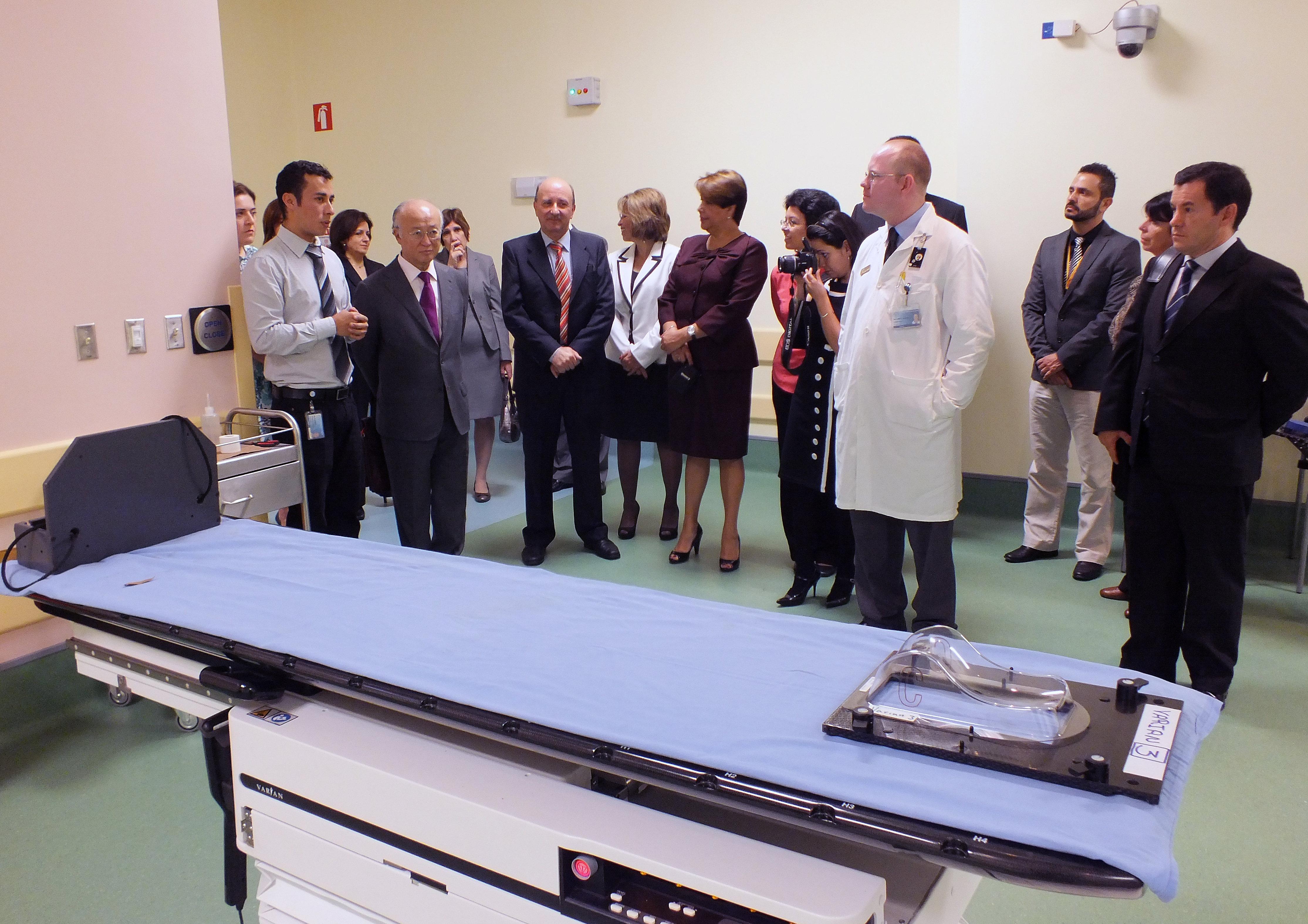 IAEA Director General Yukiya Amano is briefed on the work of the Center for Radiotherapy of the Hospital Mexico, during his official visit to Costa Rica, 2 October 2013. Photo Credit: Conleth Brady / IAEA